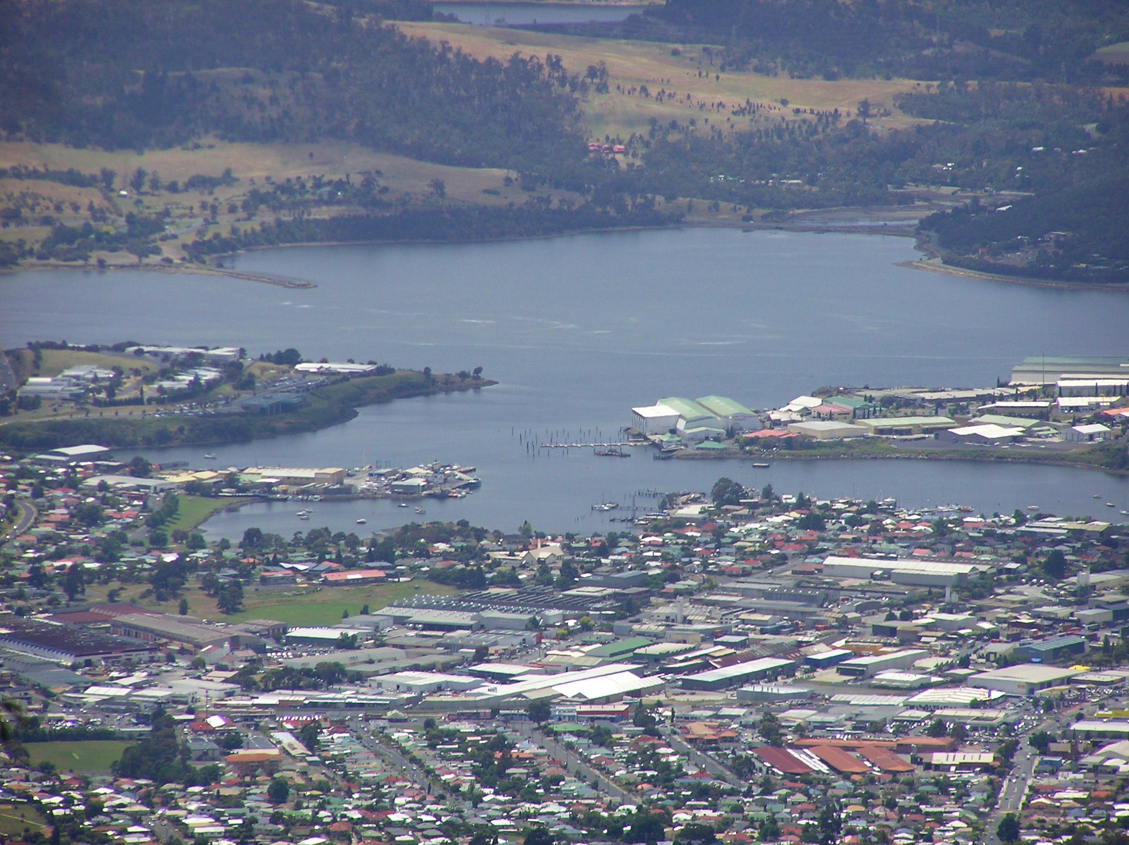 Derwent Park, Hobart in foreground, and Prince of Wales Bay. Across the Derwent River is Risdon Cove. Viewed from Lost World near Mount Wellington, Tasmania.